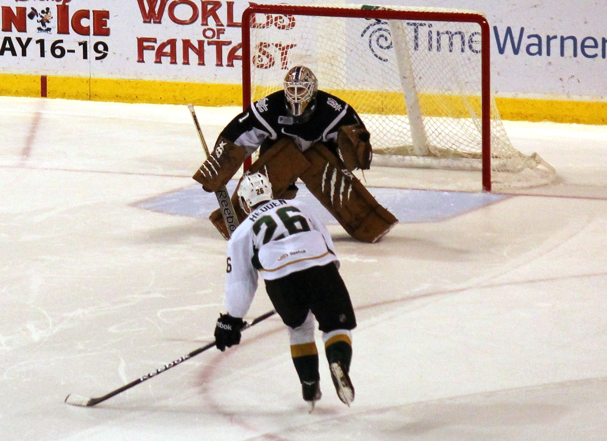 Dov Grumet-Morris of the San Antonio Rampage during a shootout attempt by Mike Hedden of the Texas Stars